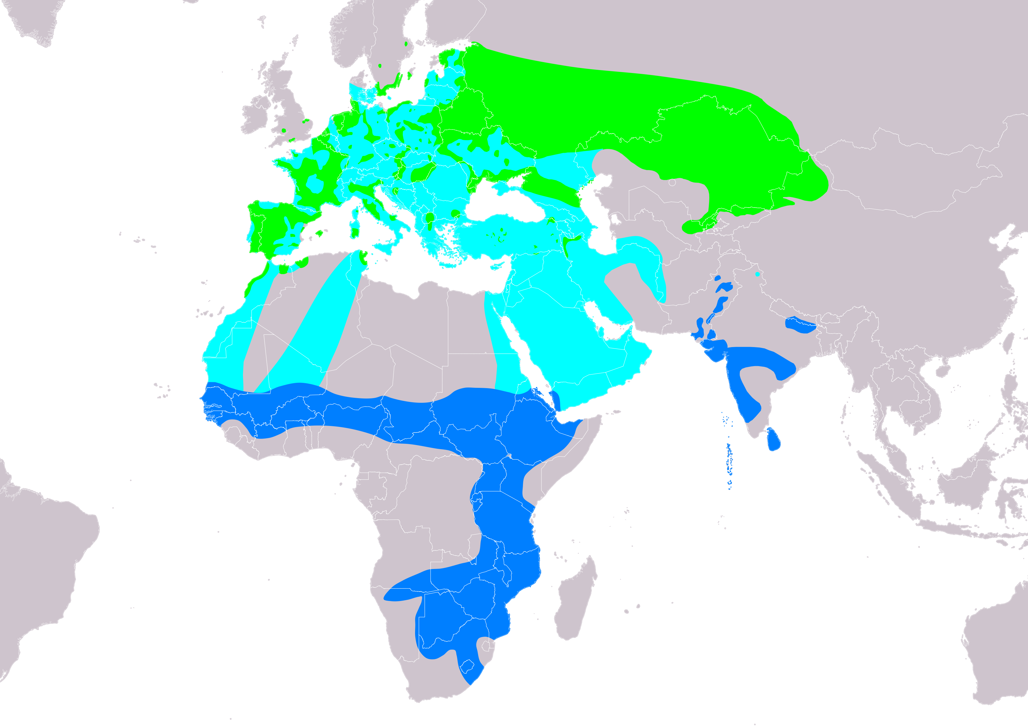 Distribution map of montagu's harrier (Circus pygargus) according to IUCN version 2019.2 according to IUCN version 2019.2; key: Legend: Extant, breeding (#00FF00), Extant, passage (#00FFFF), Extant, non-breeding (#007FFF)